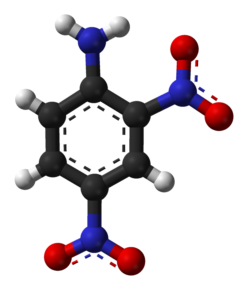 Ball-and-stick model of the 2,4-dinitroaniline molecule.